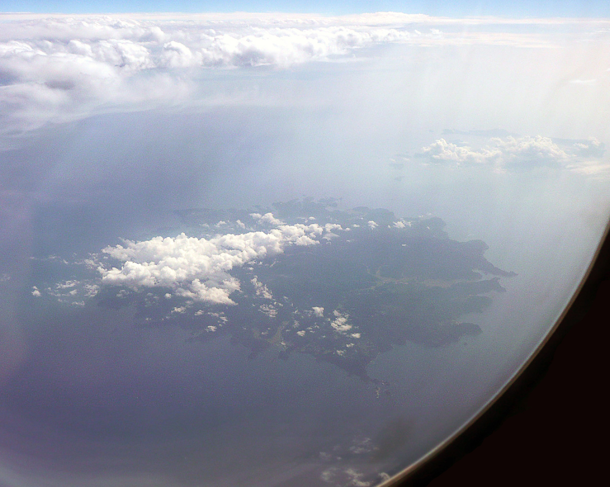 Oki Islands (隠岐諸島 Oki-shotō?, or 隠岐群島 Oki-guntō) is an archipelago in the Sea of Japan.